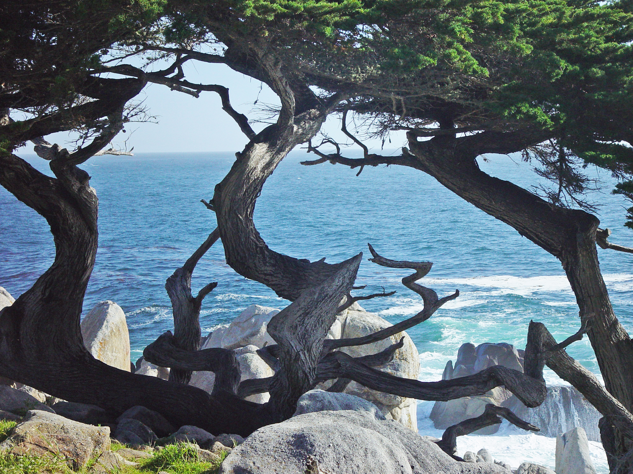 Cupressus macrocarpa (Monterey Cypress) in Pebble Beach, California, United States.17 Mile Drive